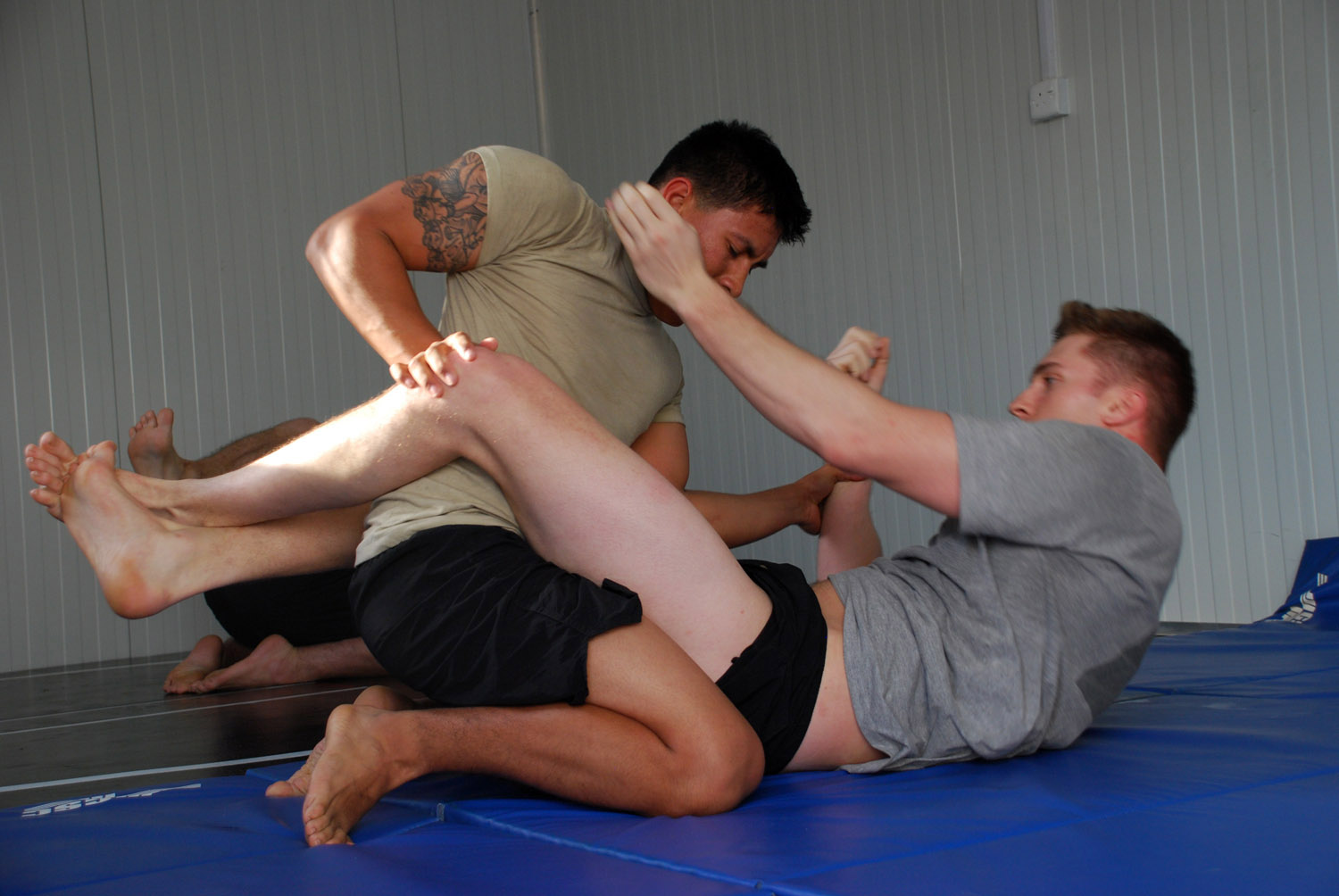 Sgt. Michael Rios, of Sebastian, Texas, tries to pass the guard of Capt. Peter Walther, of Mililani, Hawaii, Jan. 27, in a newly built martial arts trailer on Joint Security Station Istaqlal. Rios is an infantry team leaders with Company A, Walther serves as a reconnaissance platoon leader for Headquarters and Headquarters Company, 1st Battalion, 27th Infantry Regiment "Wolfhounds," 2nd Stryker Brigade Combat Team "Warrior," 25th Infantry Division, currently attached to 3rd Brigade Combat Team, 4th Infantry Division, Multi-National Division ñ Baghdad.